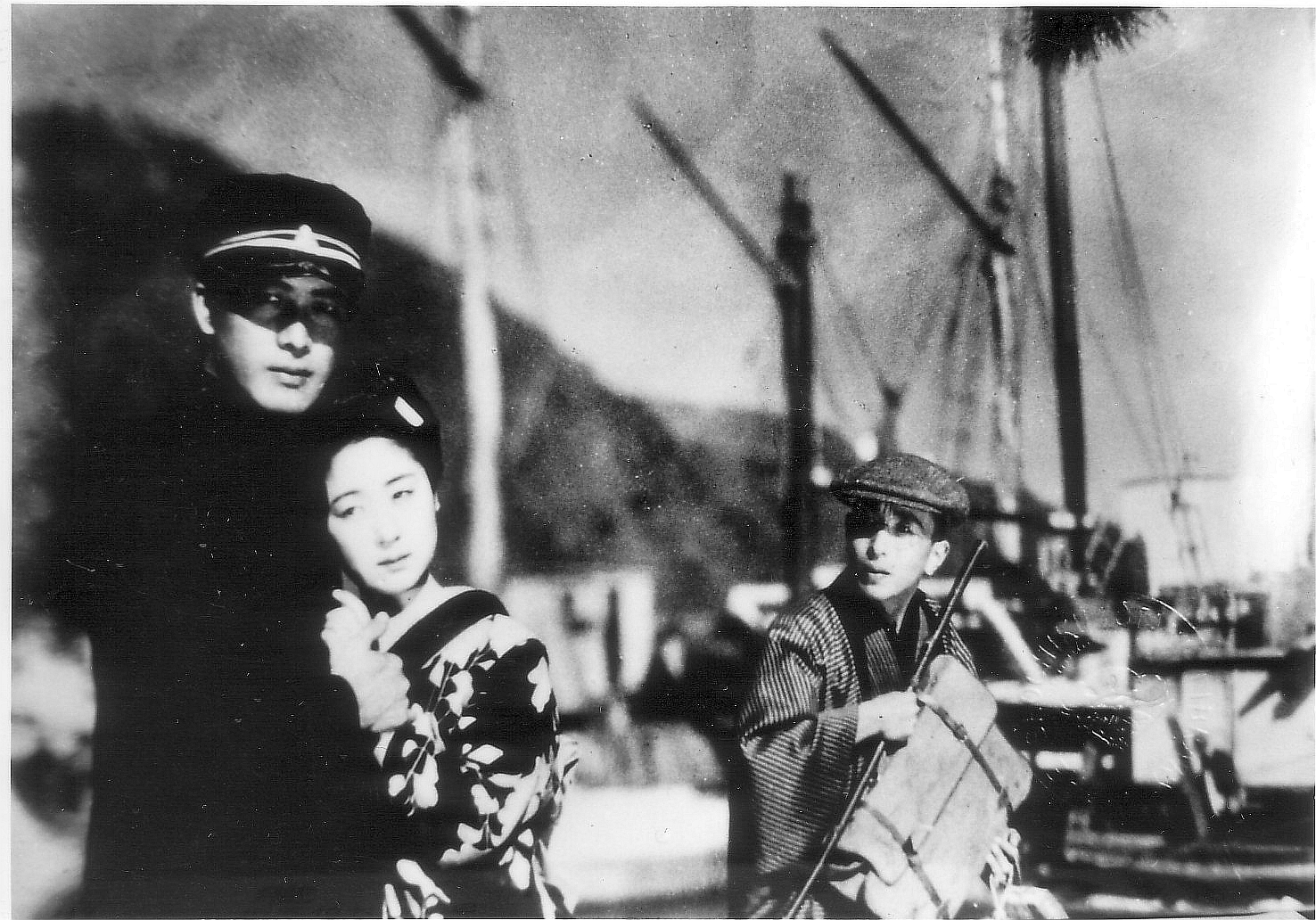 Den Obinata, Kinuyo Tanaka and Tokuji Kobayashi in Izu no odoriko (恋の花咲く 伊豆の踊子) directed by Heinosuke Gosho - 1933